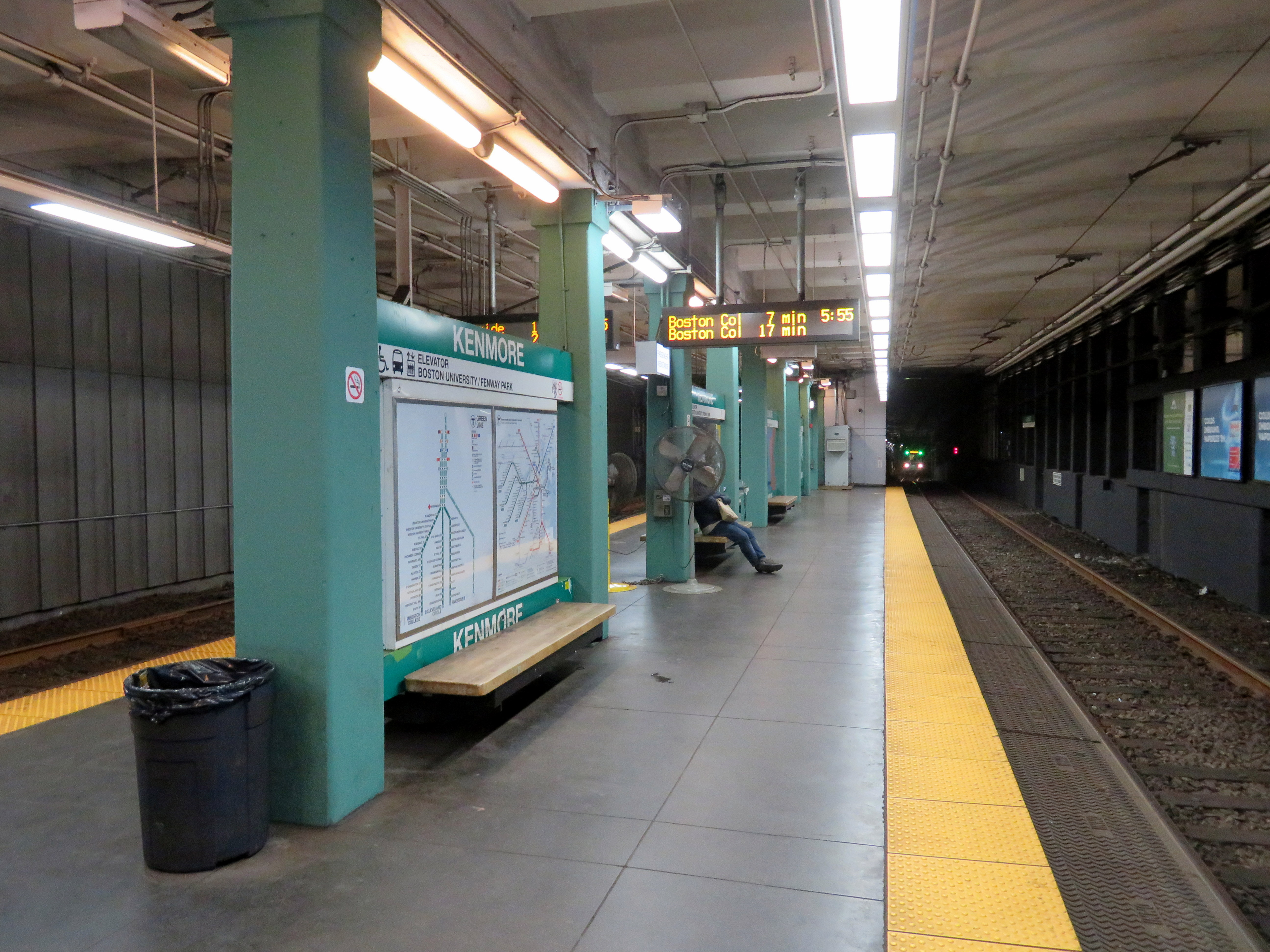 East end of the outbound platform at Kenmore station in December 2018